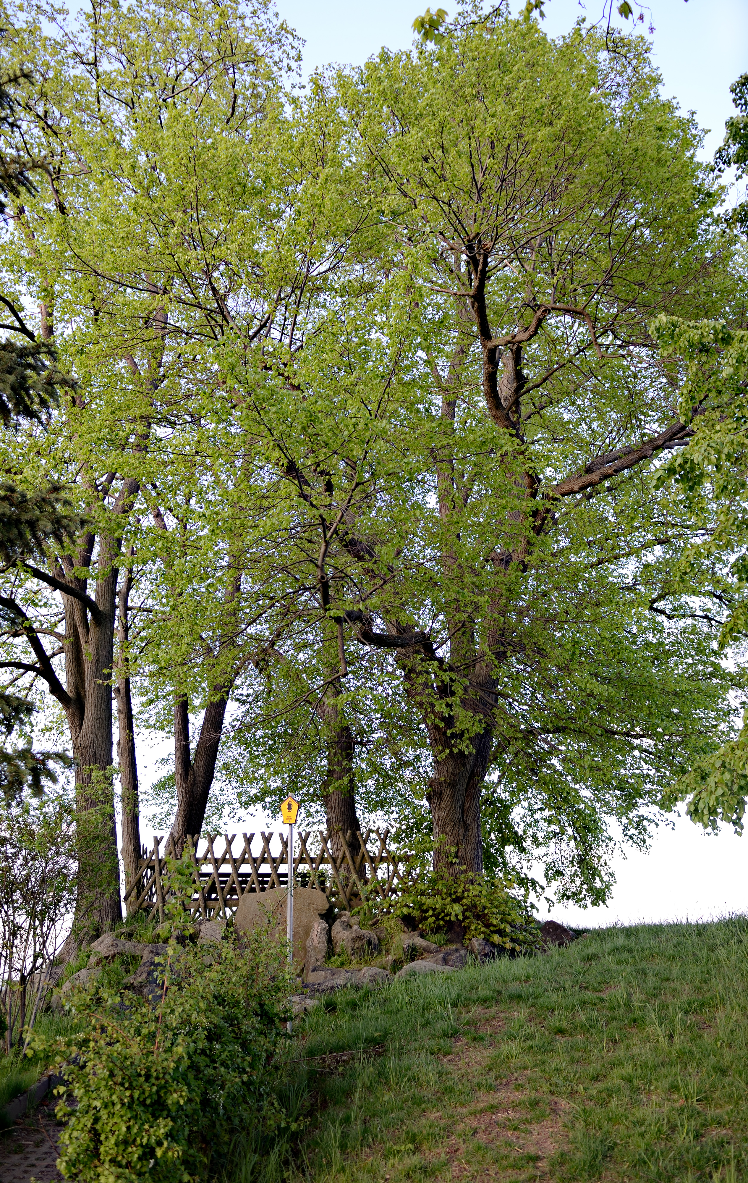 Natural monument "Echo" in Zwickau Rottmannsdorf